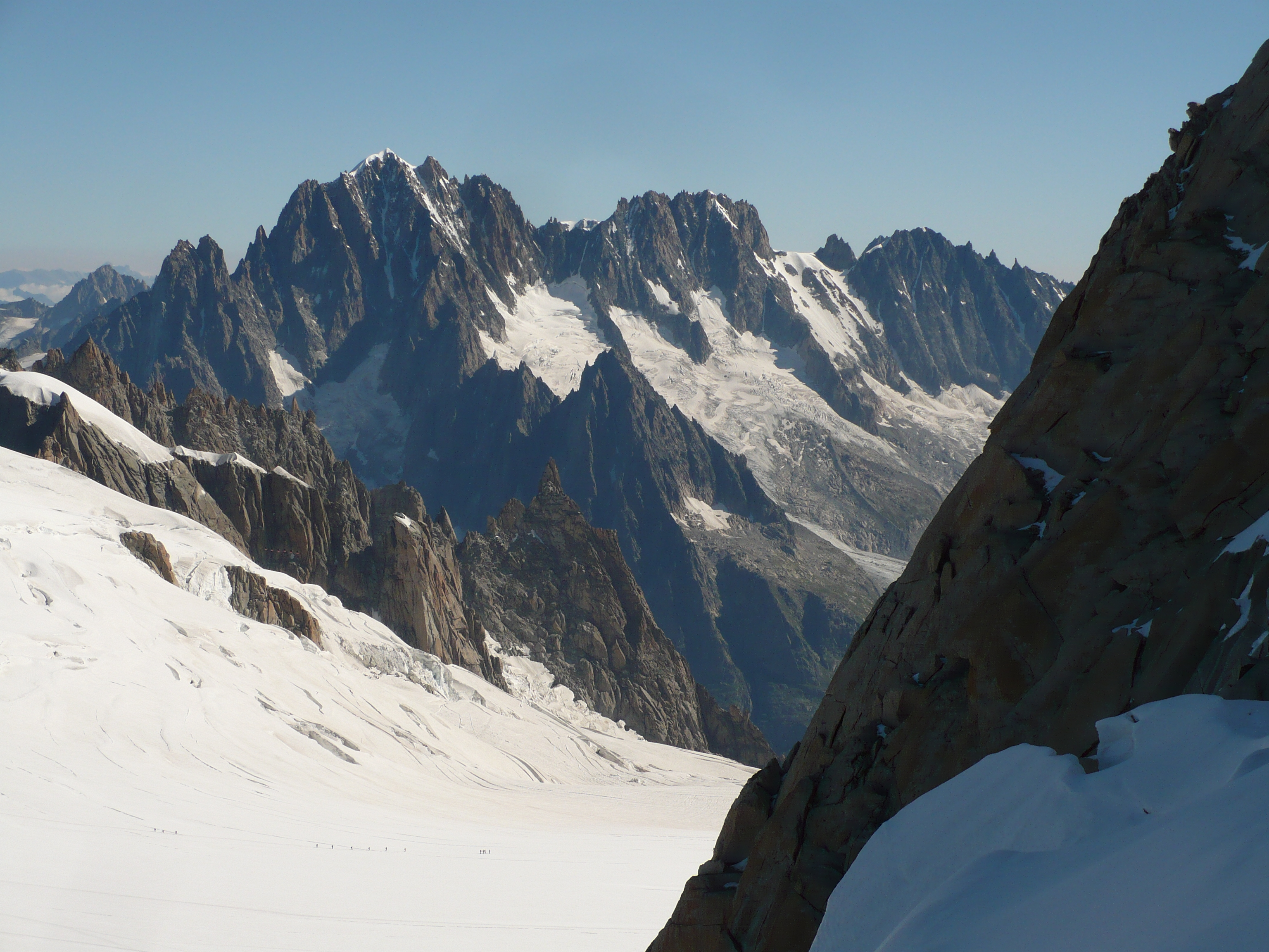 Aiguille Verte and Les Droites from west - Mont Blanc massif - Graian Alps